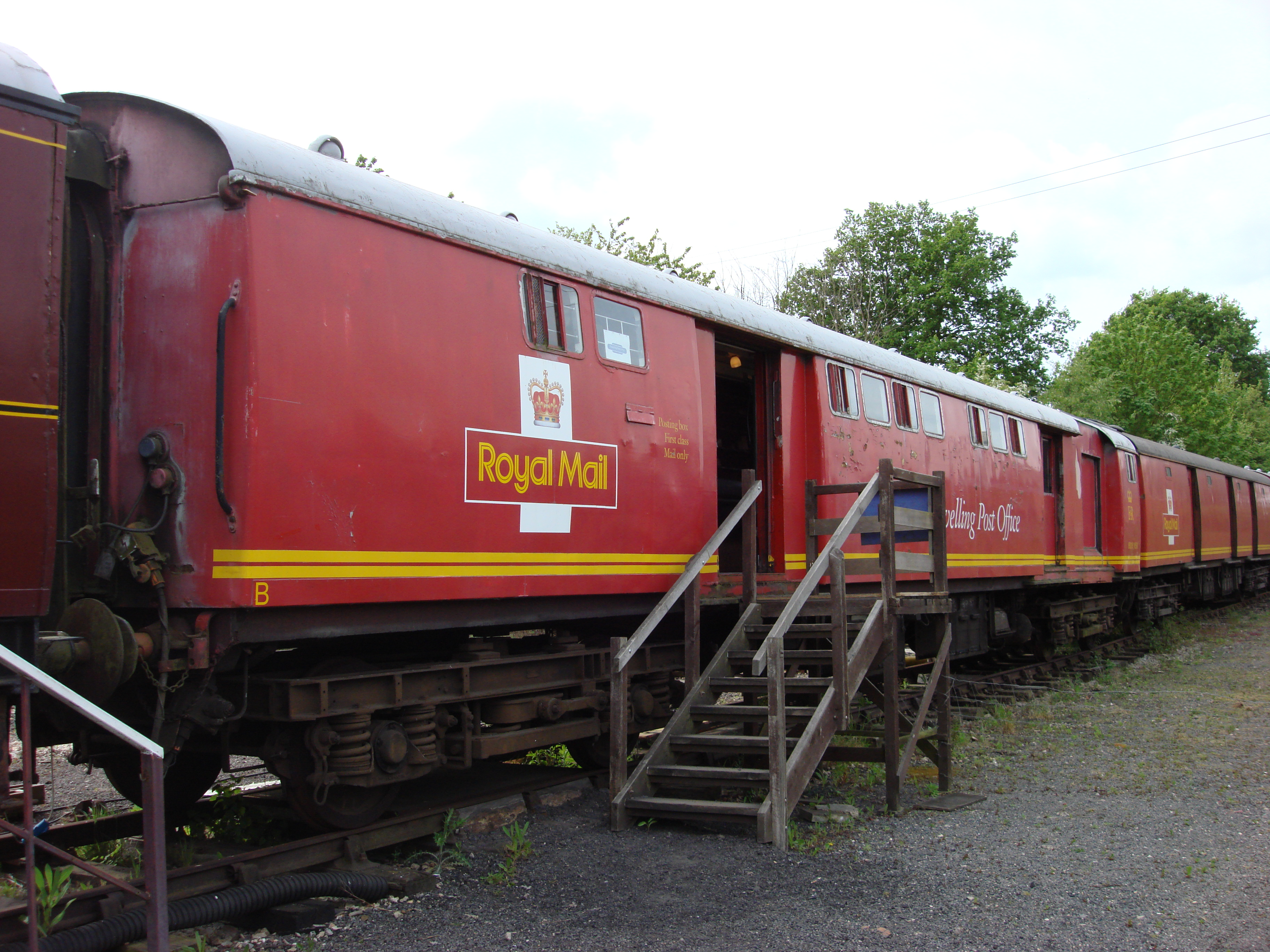 A Royal Mail, Traveling Post Office (TPO) at the Colne Valley Railway